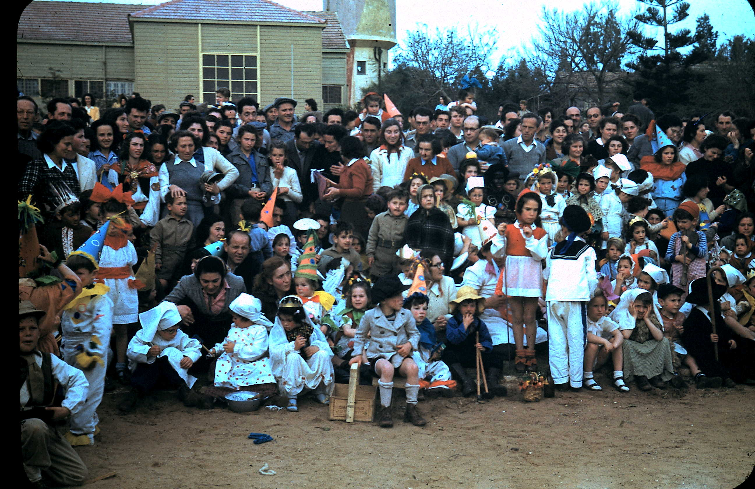 Purim costumes in The kibutz, Jewish holidays